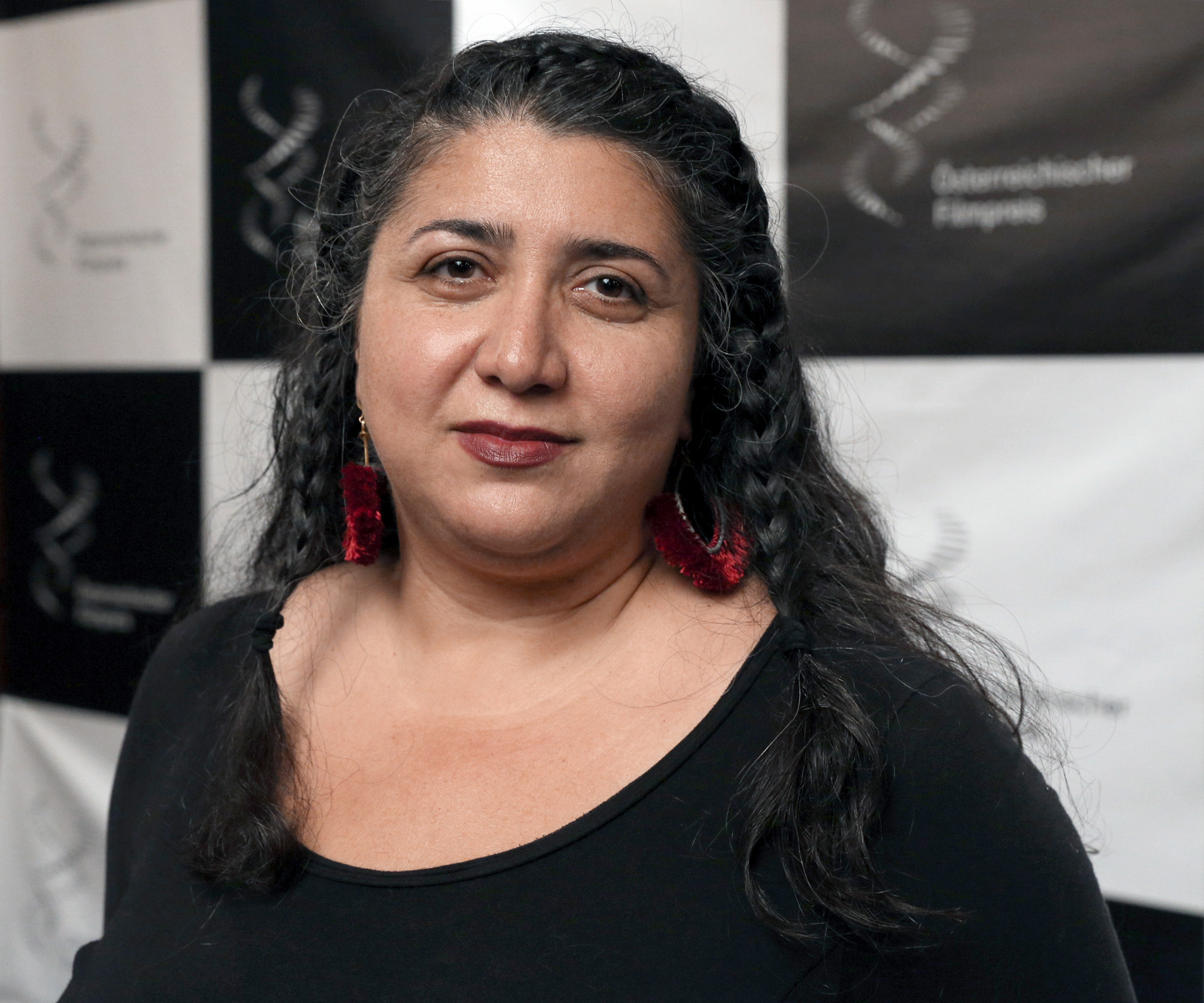 Sudabeh Mortezai at the Austrian Film Awards 2015 at Rathaus, Vienna,Austria.